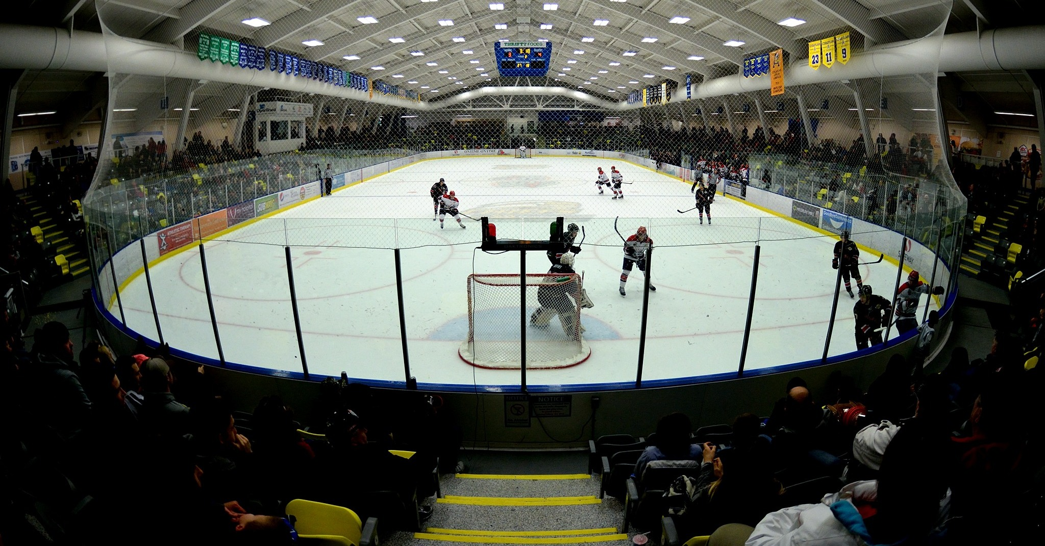 The main arena at the Poirier Sport & Leisure Complex in Coquitlam seats 2200 spectators and is the main venue of both the Coquitlam Express of the B.C. Hockey League and the Coquitlam Adanacs of the Western Lacrosse Association.